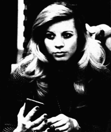 Figure skater Rita Trapanese